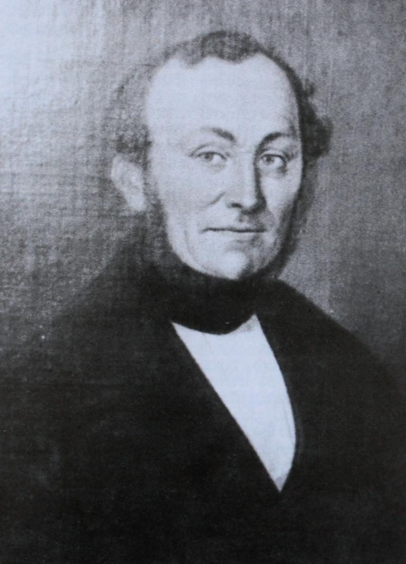 Carl Gotthilf Nestler